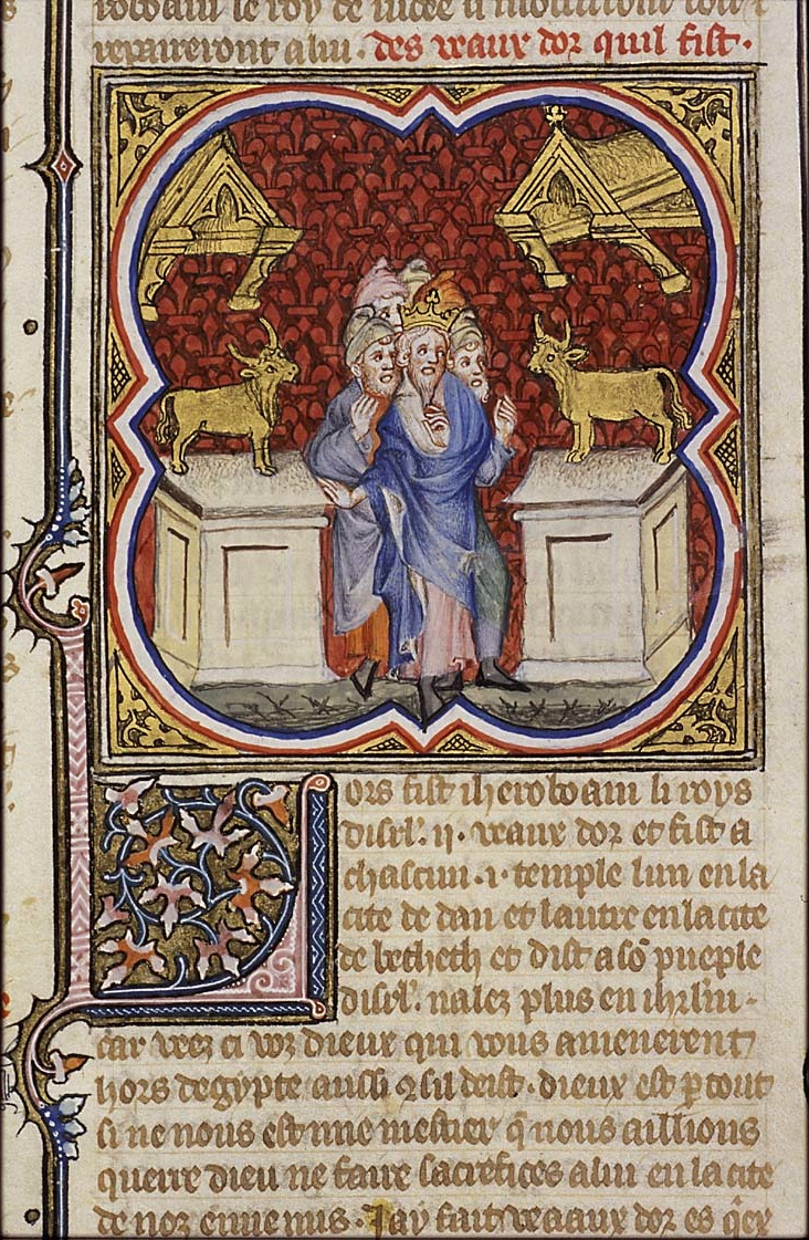 Jeroboam sets up two golden calves, from the Bible Historiale. Den Haag, MMW, 10 B 23 165r